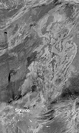 One of the longest flows (1000 km long) occurs as Myletta Fluctus in Lavinia Planitia.